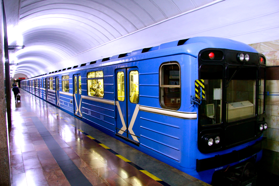 Yekaterinburg Metro.